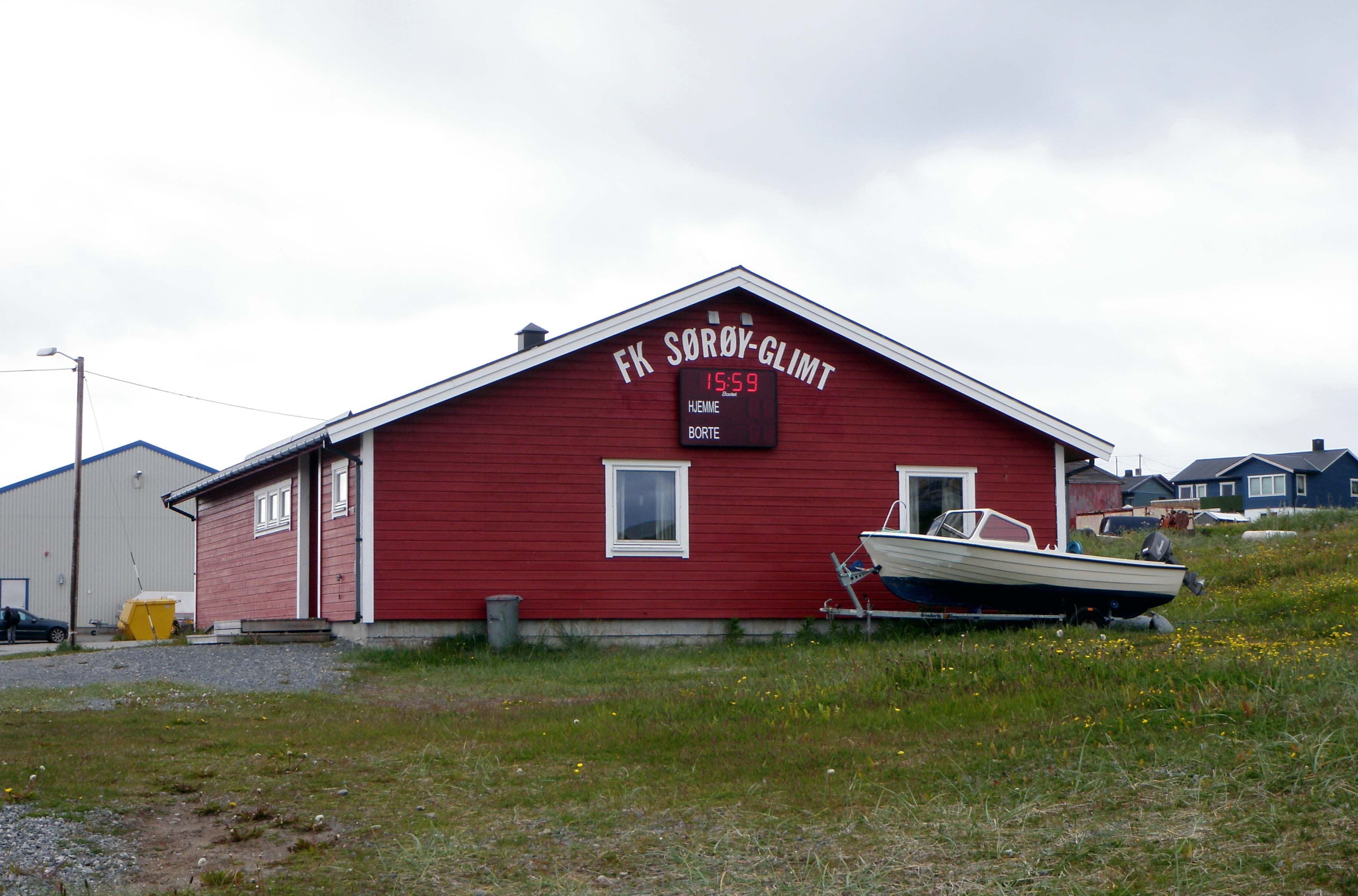 Clubhouse of the football club Sørøy Glimt, in Hasvik, Finnmark, Norway.